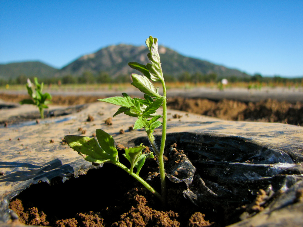 Tomato plant just after planting on a tomato farm in north Queensland, Australia.